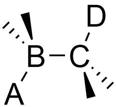 Molecular structure showing an anti-periplanar A-B-C-D dihedral bond angle.